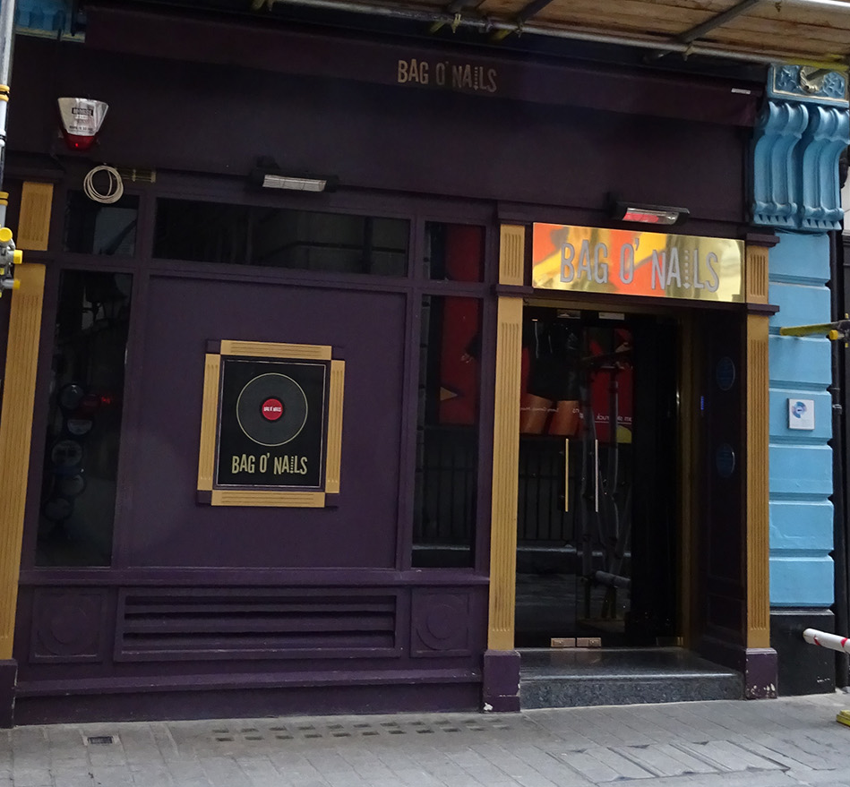 Bag O'Nails Club - 9 Kingly Street London W1B 5PN